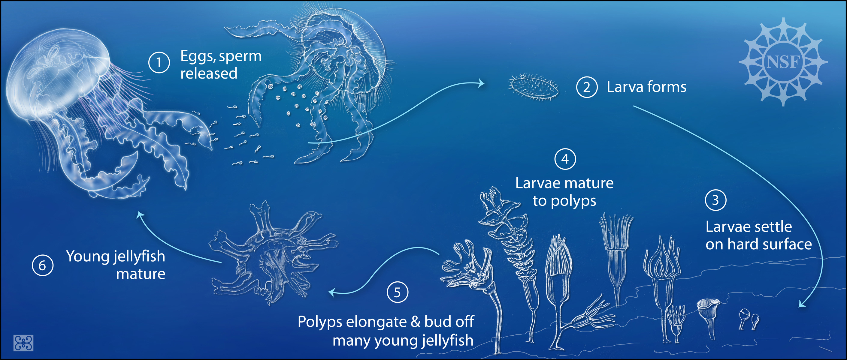 Picture of reproduction of jellyfish